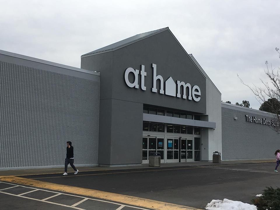 An At Home Storefront in Durham, North Carolina